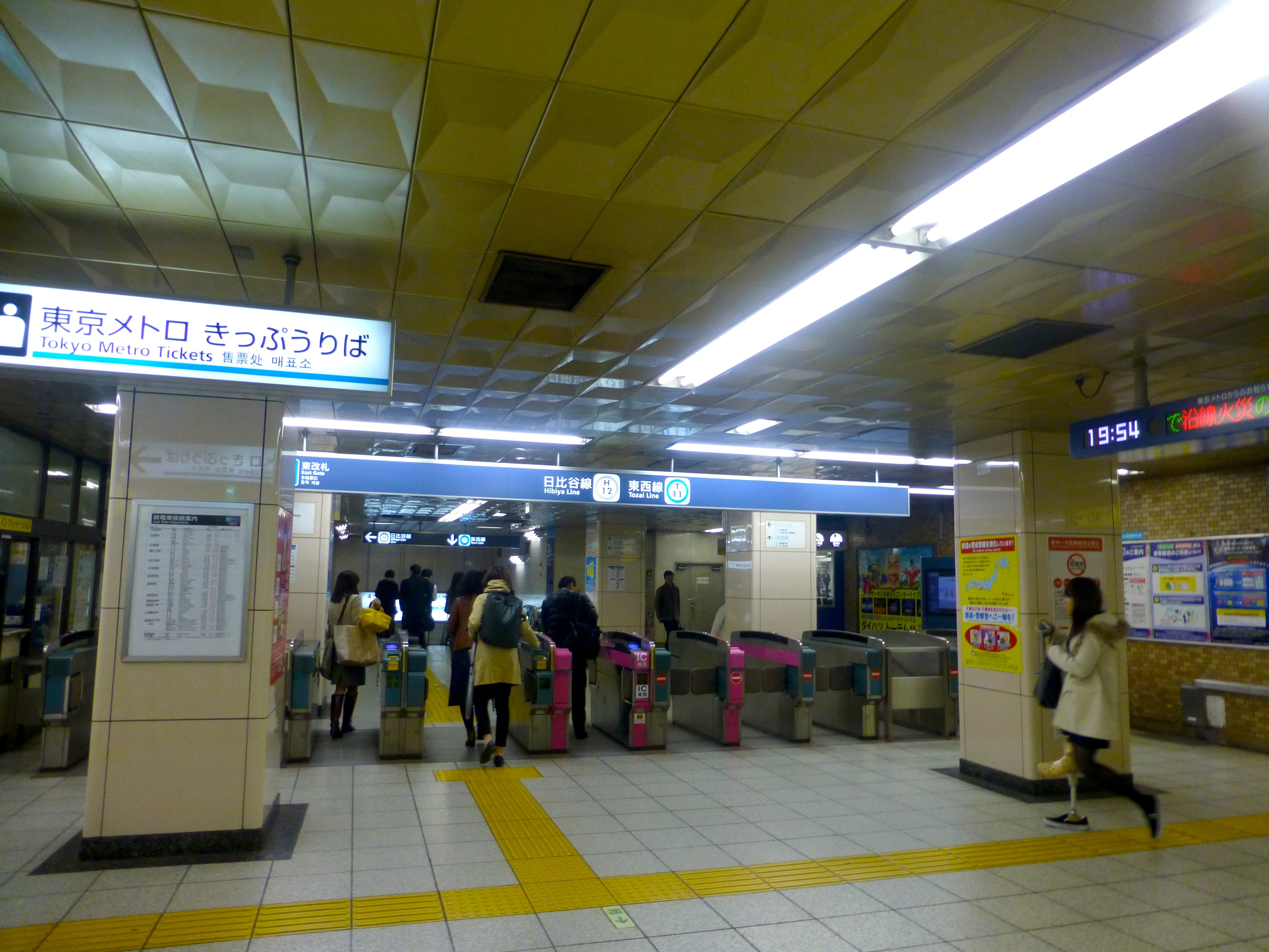 茅場町駅の改札口 (Kayabacho Station's ticket gates)